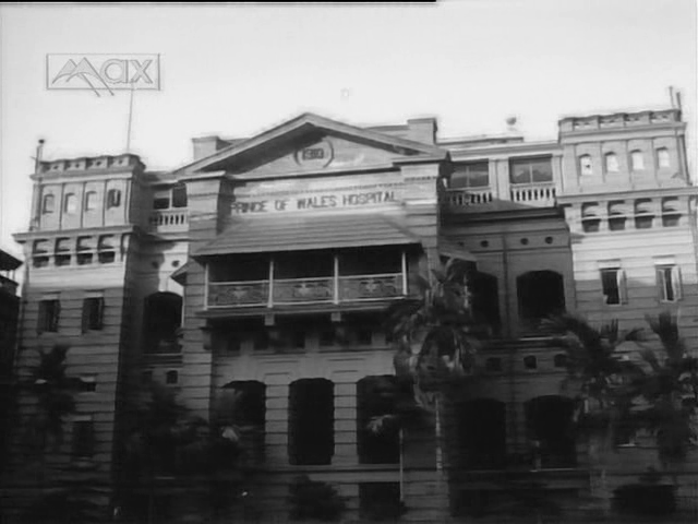 Picture of now renamed David Hare Block which was once called The Prince of Wales block at the Calcutta Medical College.